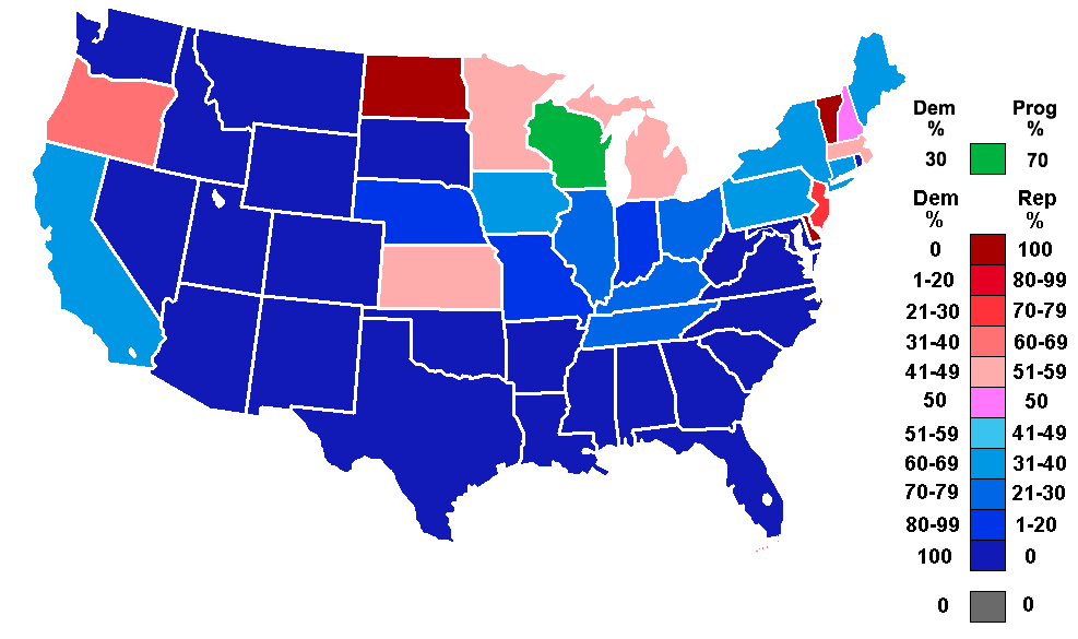 Map showing the composition of the US House of Representatives during the 74th Congress